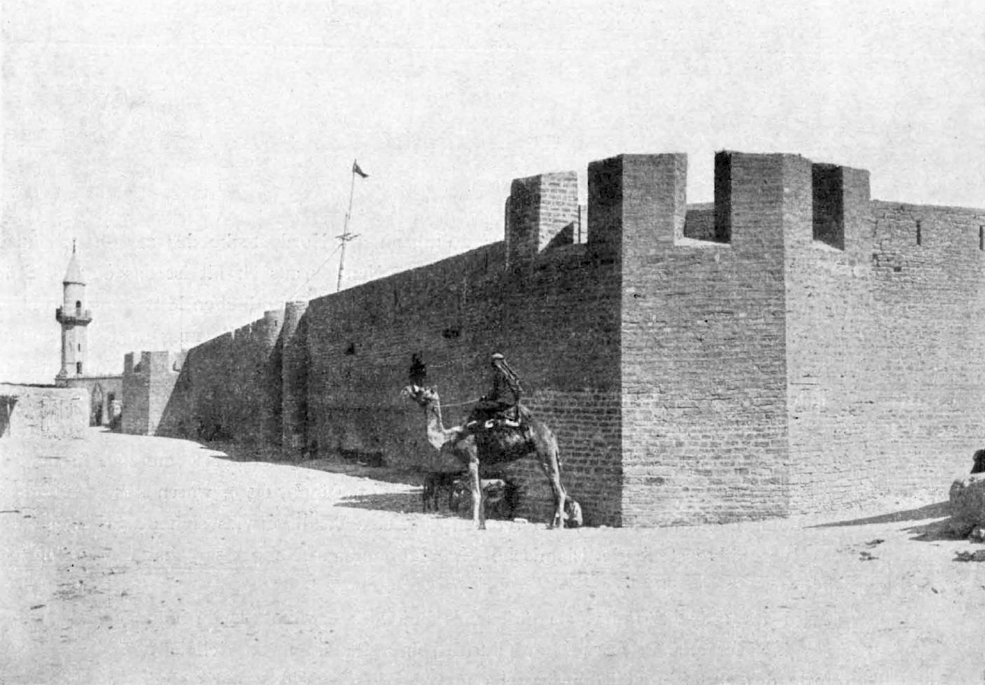 Original description: “El Arish. The fort before the bombardment by English warship guns [in 1915].” North side wall of the fort with the entrance in its center. Abbasid mosque to the left.